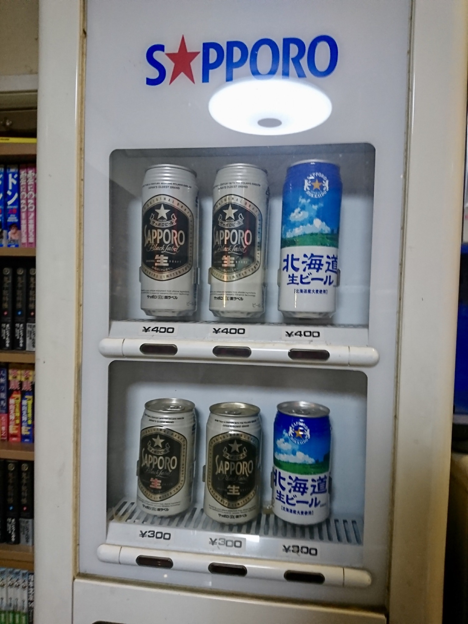 Sapporo-Kuro-Label(and Hokkaido-Draft beer) cans of old design